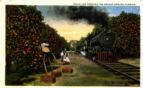 Local call number: PC0489 Title: Traveling through the orange groves: Florida Publication info: Chicago: Curt Teich Co., [19--?] Date: 191_ Physical descrip: 1 postcard; col.; 9 x 14 cm. Series Title: Postcard collection Repository: State Library and Archives of Florida, 500 S. Bronough St., Tallahassee, FL 32399-0250 USA. Contact: 850.245.6700. Persistent URL